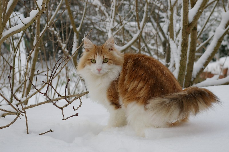 forest norwegian, amber blotched tabby an white, on the snow